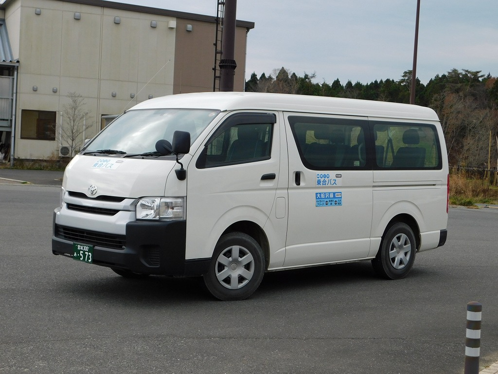 Minamisanriku town bus Toyota Hiace